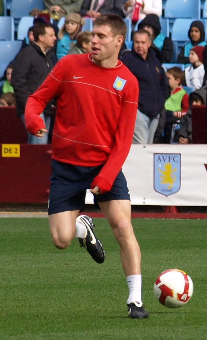 James Milner For Aston Villa, Picture by Gus Stephens